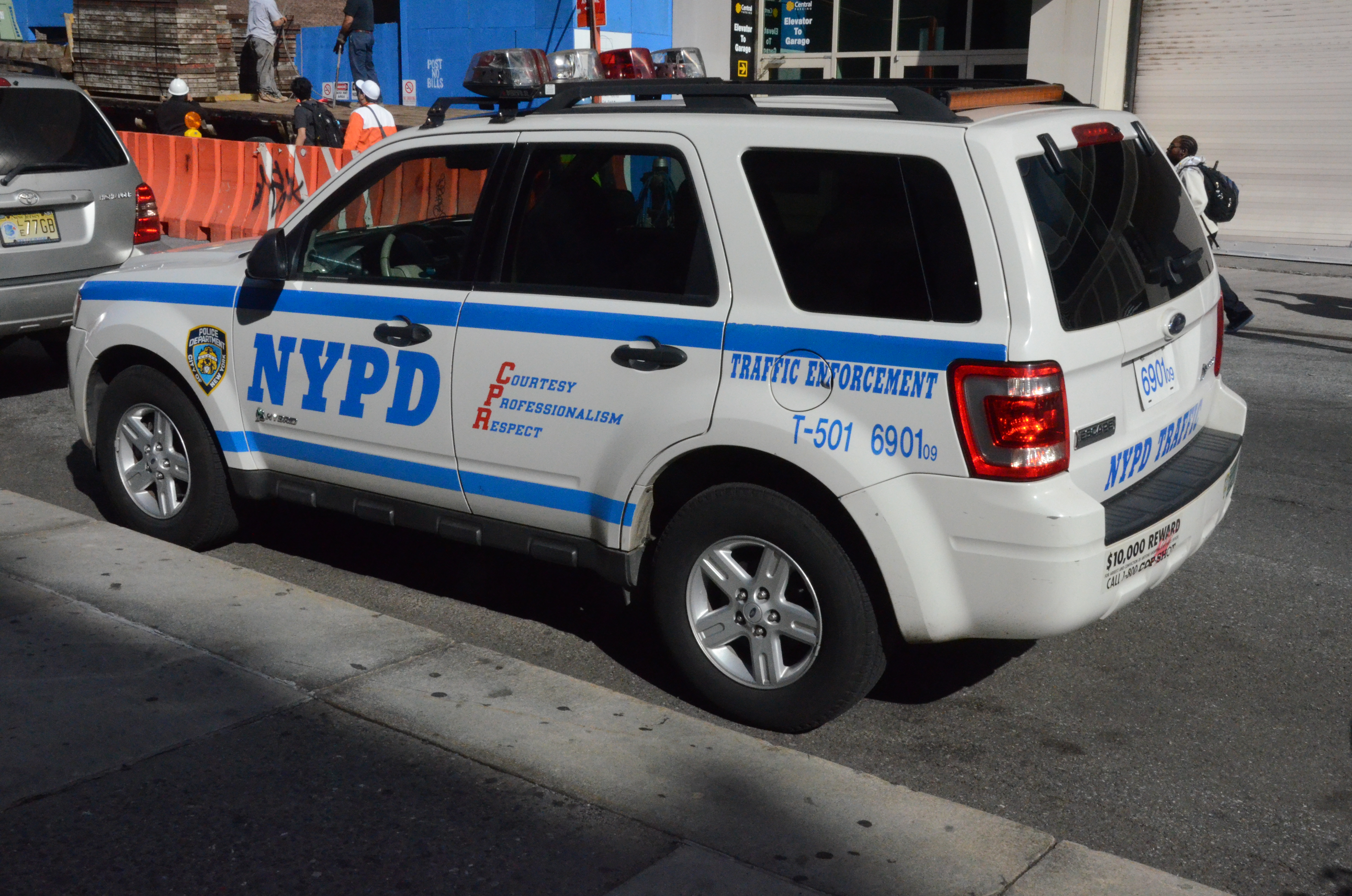 An NYPD Traffic Enforcement SUV. 2008-2010 Ford Escape